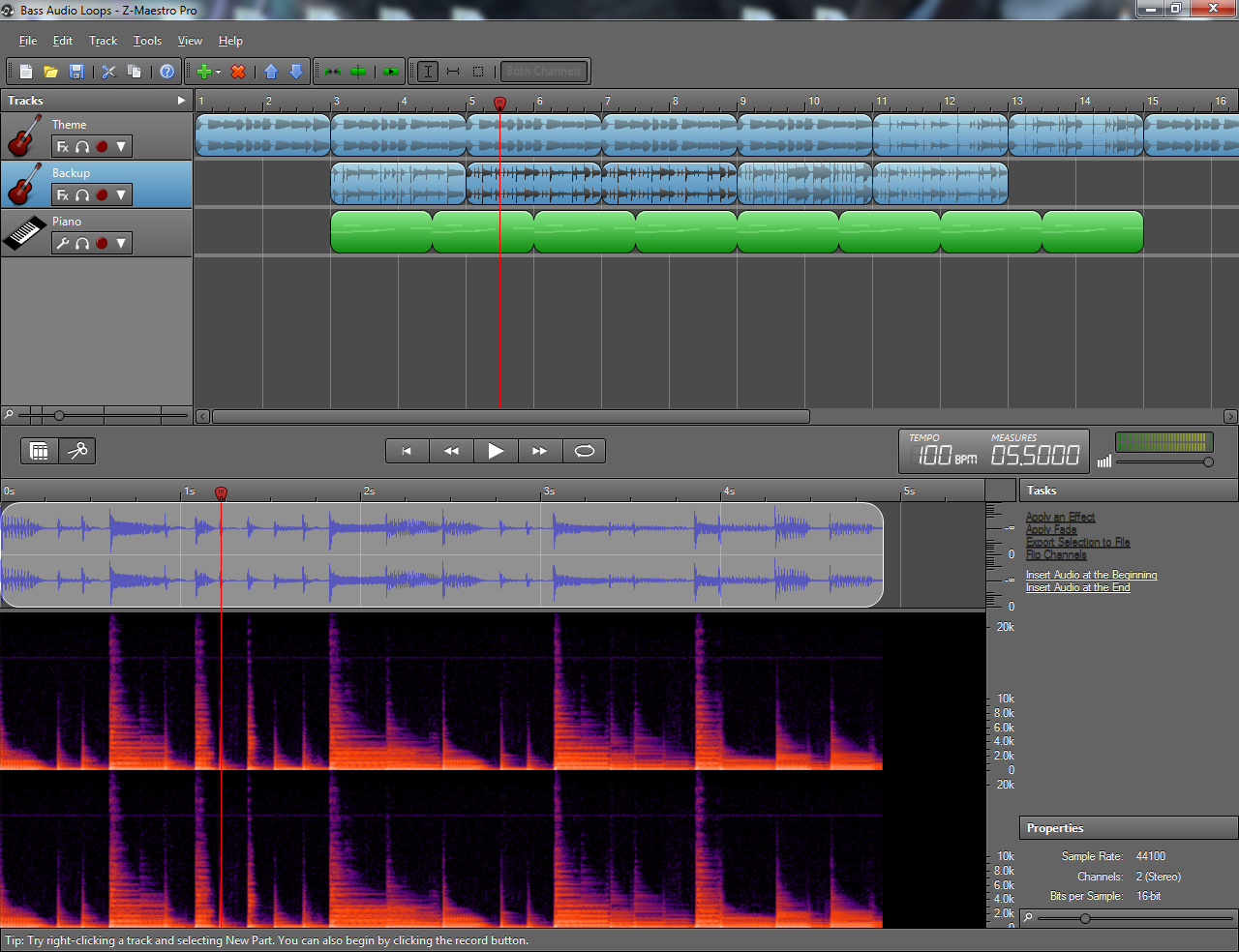 A generic screenshot for Z-Maestro 1.4 that depicts the layout of the main window as well as the audio editor showing a spectral view of the selected audio clip.